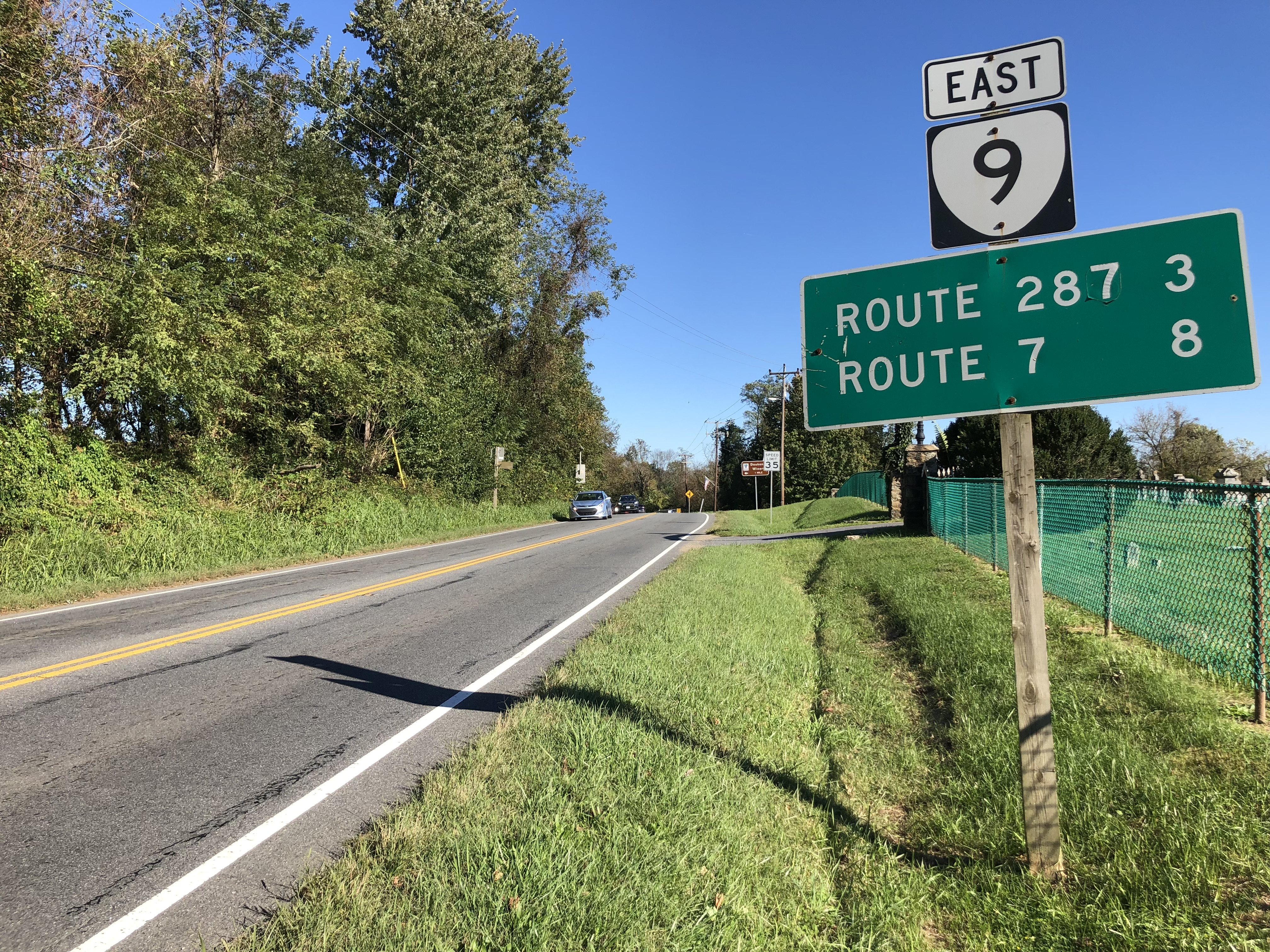 View east along Virginia State Route 9 (Charles Town Pike) at Hillsboro Road (Virginia State Route 690) in Hillsboro, Loudoun County, Virginia